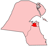 Map of Kuwait showing Al Farwaniyah governorate. Made by User:Golbez.